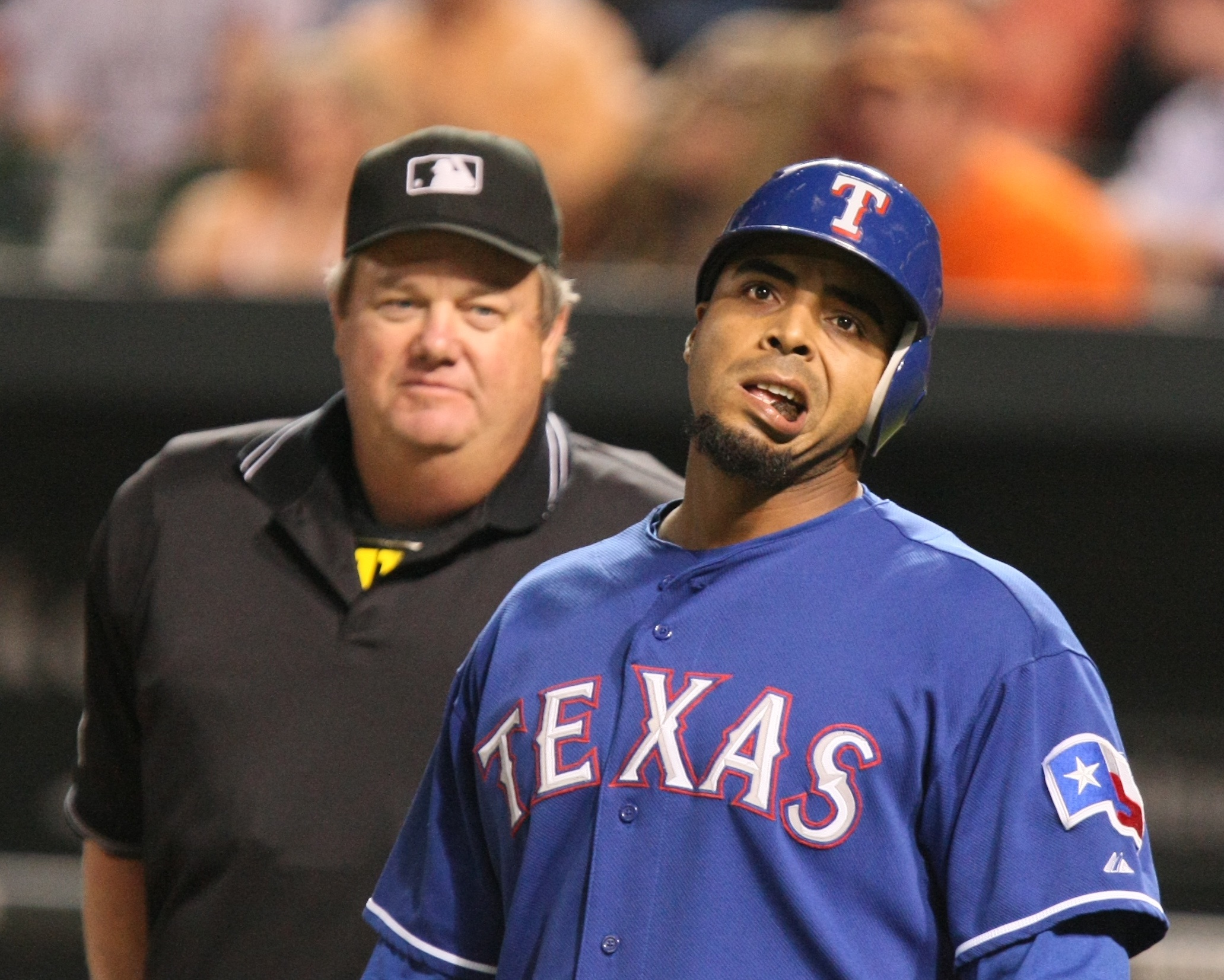 Texas Rangers batter Nelson Cruz and umpire Joe West during a game on April 25, 2009.